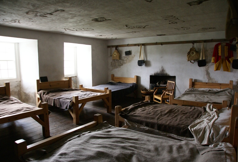 Corgarff Castle, Aberdeenshire, Scotland. Barrack room.